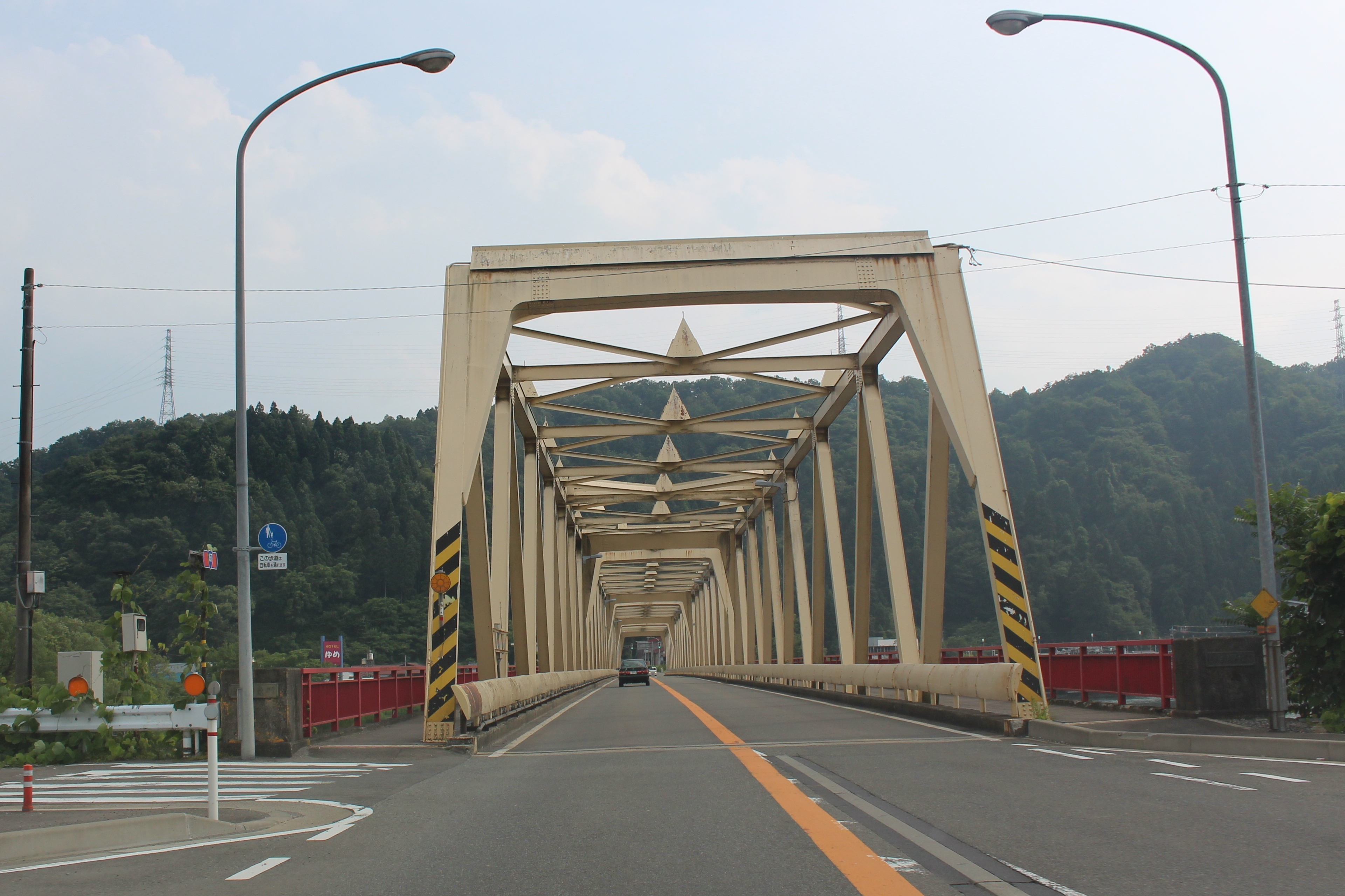 Shimoarai Bridge of Route 157 over Kuzuryu River in Owatari, Heisenjicho, Katsuyama, Fukui prefecture, Japan.